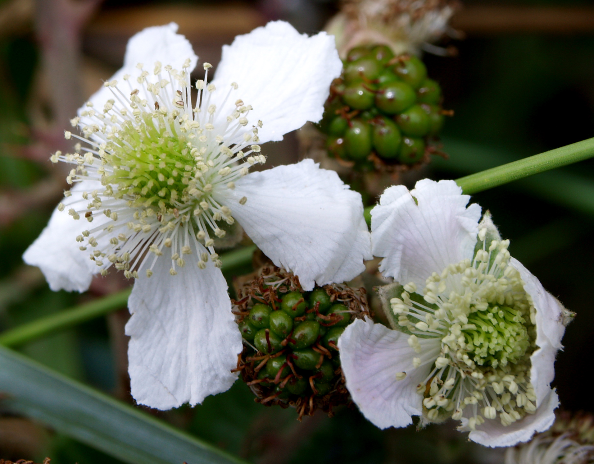 Blackberry flower